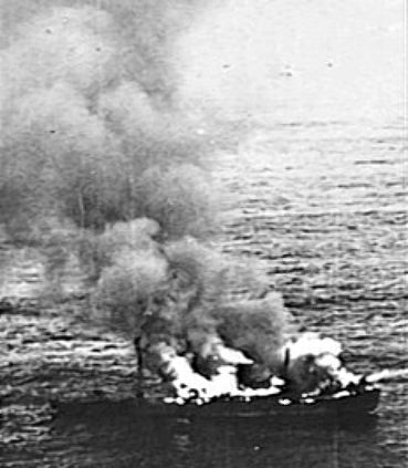 Ther German blockade runner Alsterufer burning after having been attacked by a Liberator aircraft from 311 (Czechoslovak) squadron RAF in the Bay of Biscay.